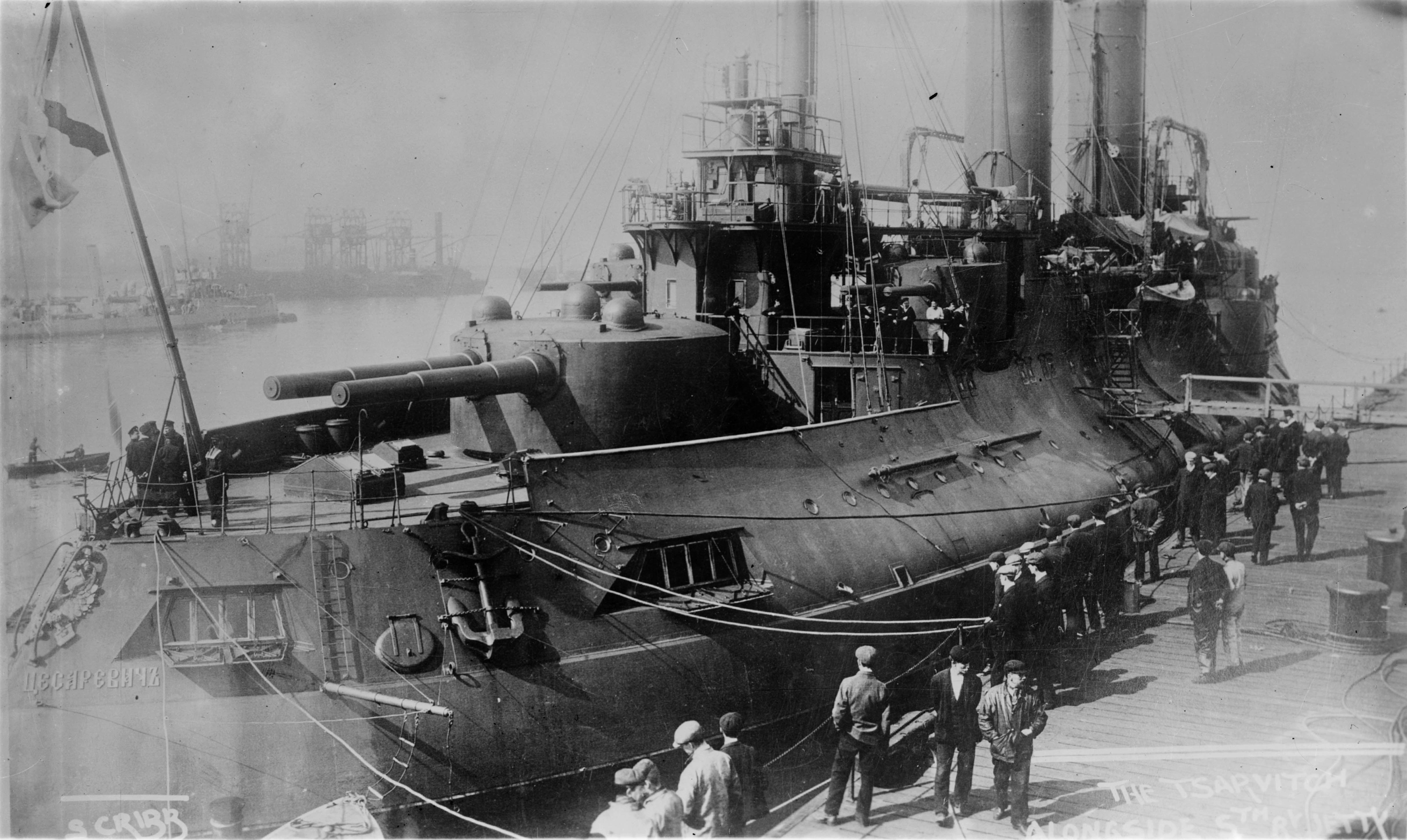 Imperial Russian battleship Tsesarevich in Portsmouth, March 1907.